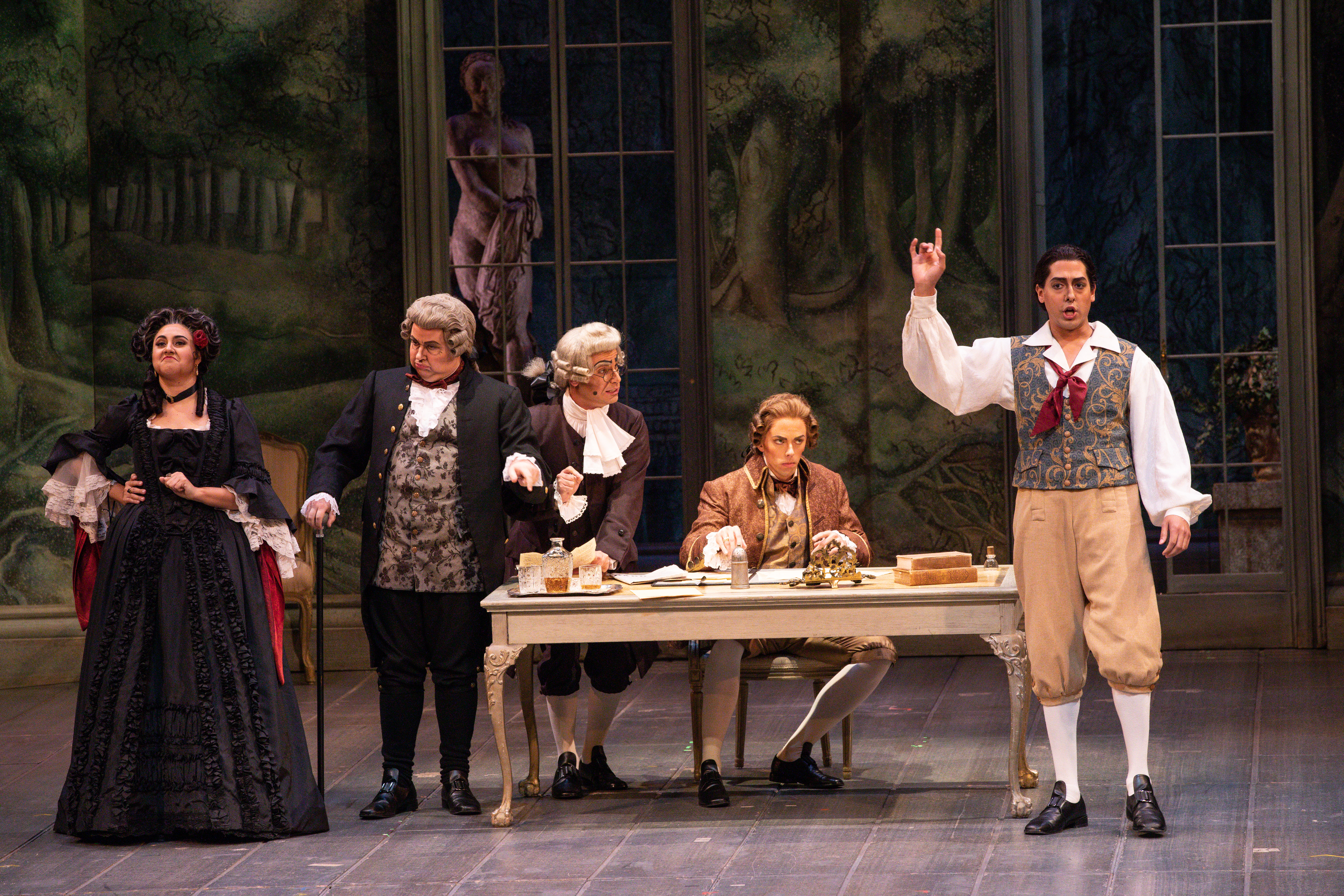 Photo by Daniel Azoulay